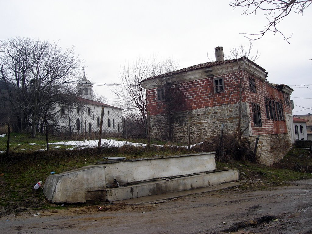 Church and school in Vardun, Bulgaria.